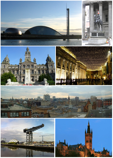 Clockwise from top-left: View of Glasgow Science Centre; Duke of Wellington statue outside Gallery of Modern Art; Royal Exchange Square at night; Skyline of Glasgow; University of Glasgow; Finnieston Crane; Glasgow City Chambers